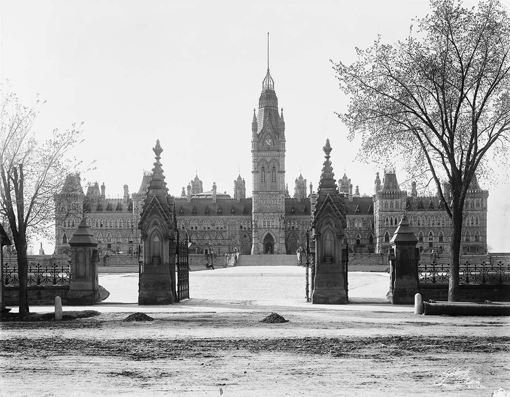 Parliament Hill, as viewed from front gates. Ottawa, Canada.